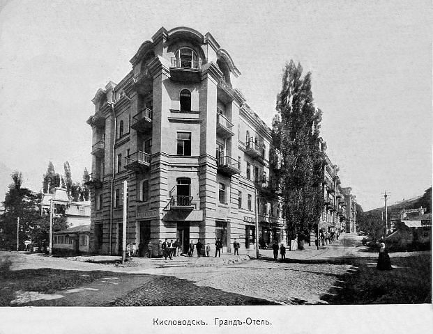 Takhtamirov's Grand-Hotel in Kislovodsk